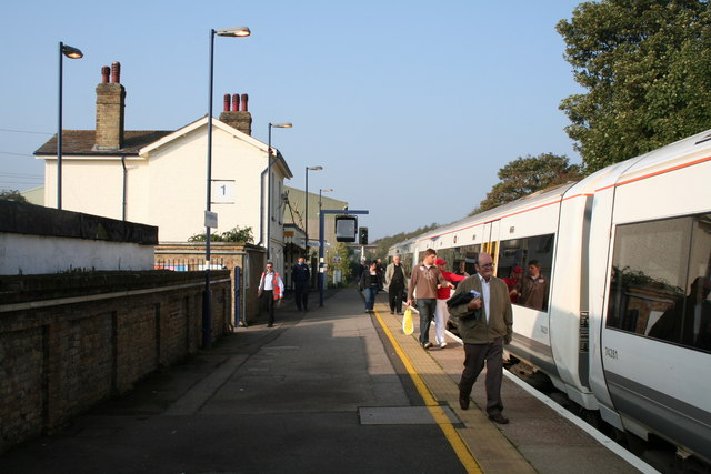 Platform 1, Farningham Road Station, Kent A mixed group of passengers prepare to board a class 375 train forming a morning up service to Victoria. The railway here was originally part of the London, Chatham and Dover railway, later the South Eastern and Chatham, then the Southern and, from 1948, British Railways. Now it is part of the South Eastern franchise of National Rail.